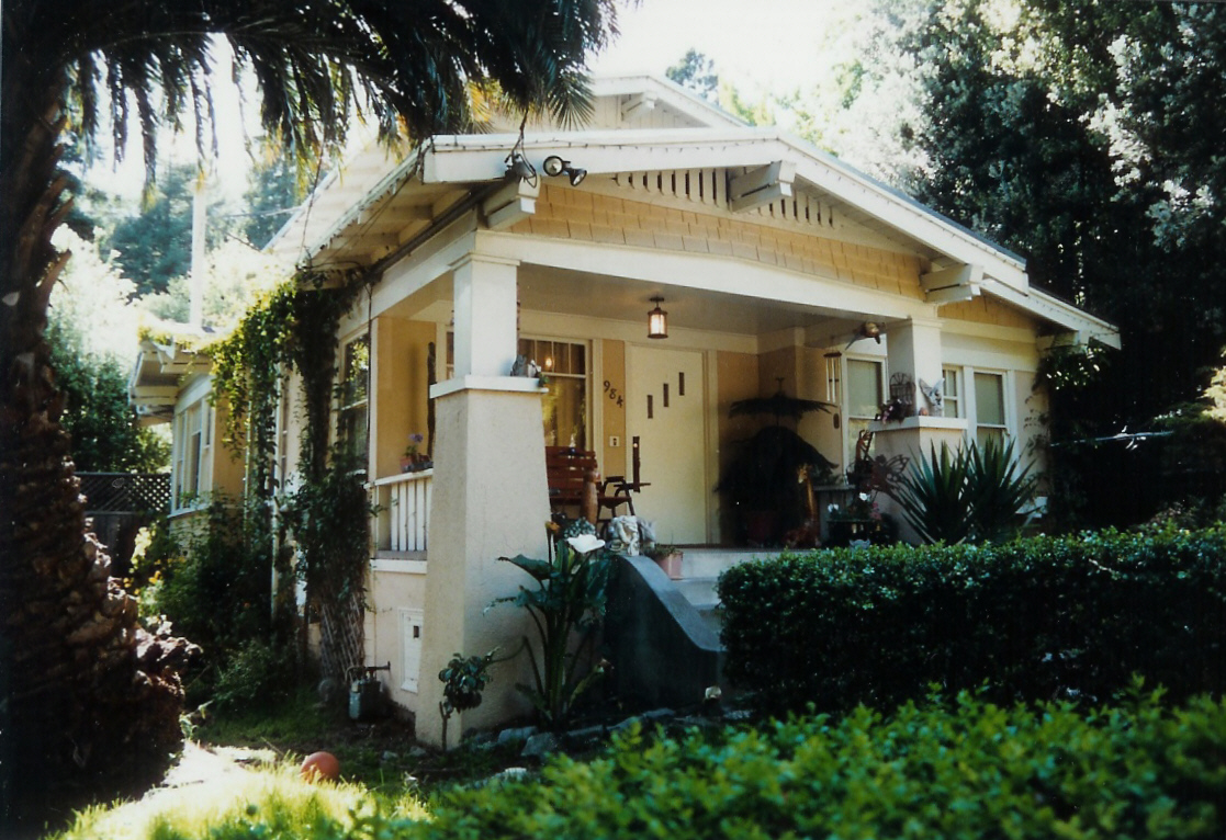 Residential Building in Berkeley, CA (architectural style: Craftsman, 1905-1930)